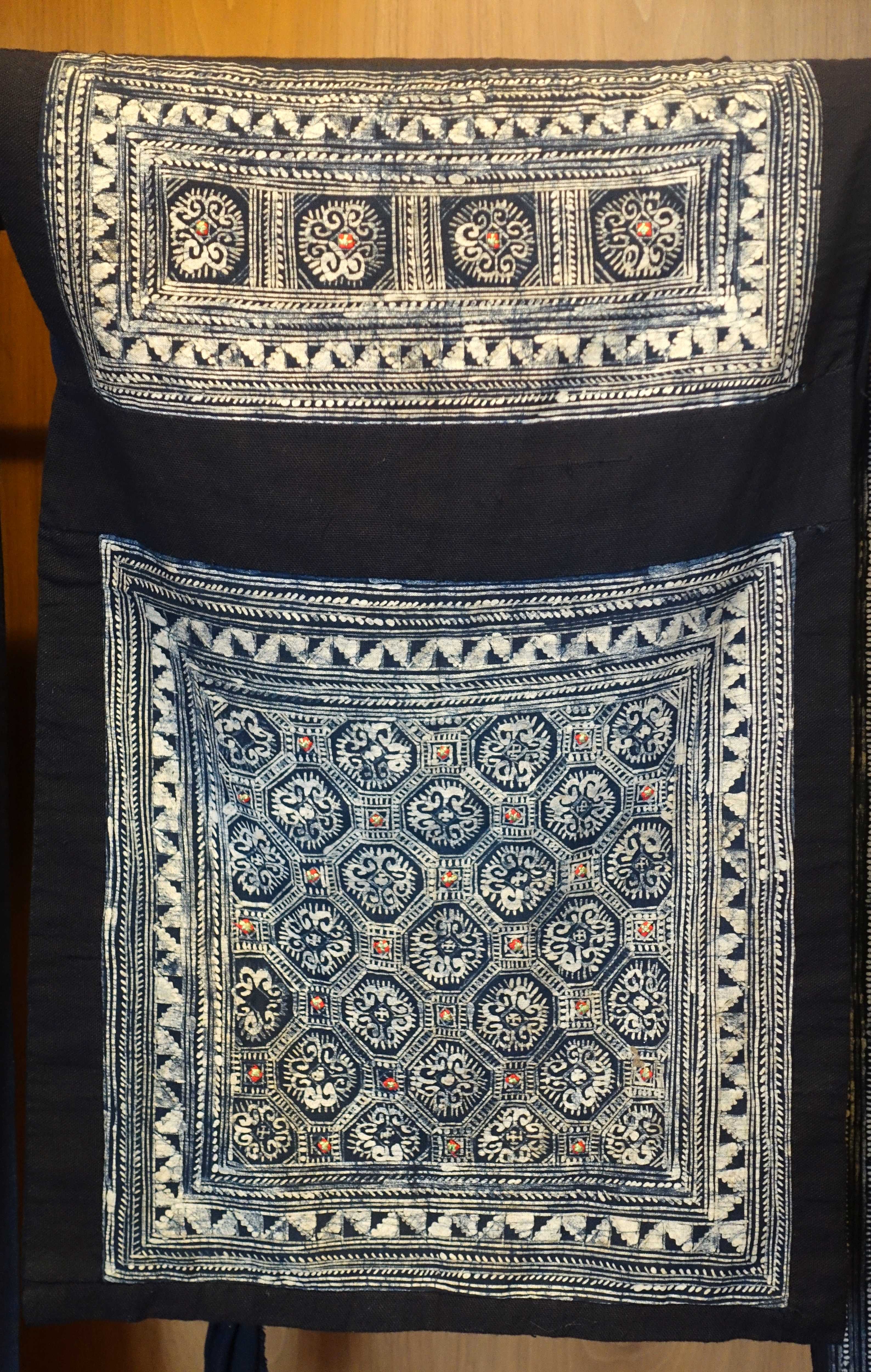 Exhibit in the Vietnam Museum of Ethnology - Hanoi, Vietnam.